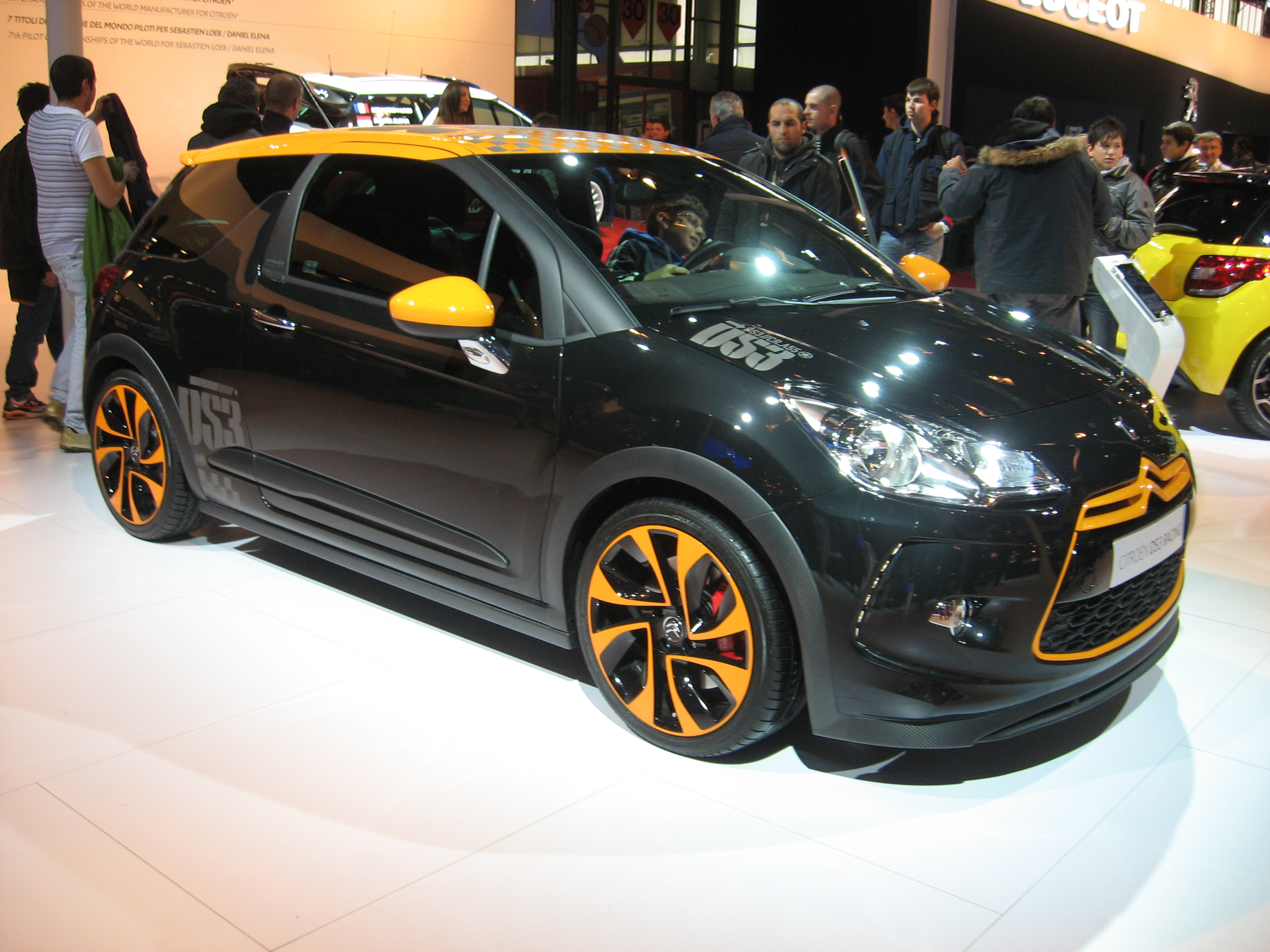 Subject: Citroën DS3 Racing Date:December 5th, 2010 Event: Bologna Motor Show 2010 Place/Country: Bologna, Italy I release all rights in the public domain.